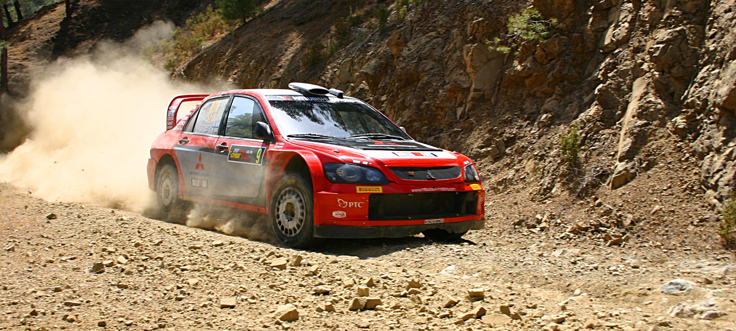 Harri Rovanperä driving his Mitsubishi Lancer WRC at the 2005 Cyprus Rally.